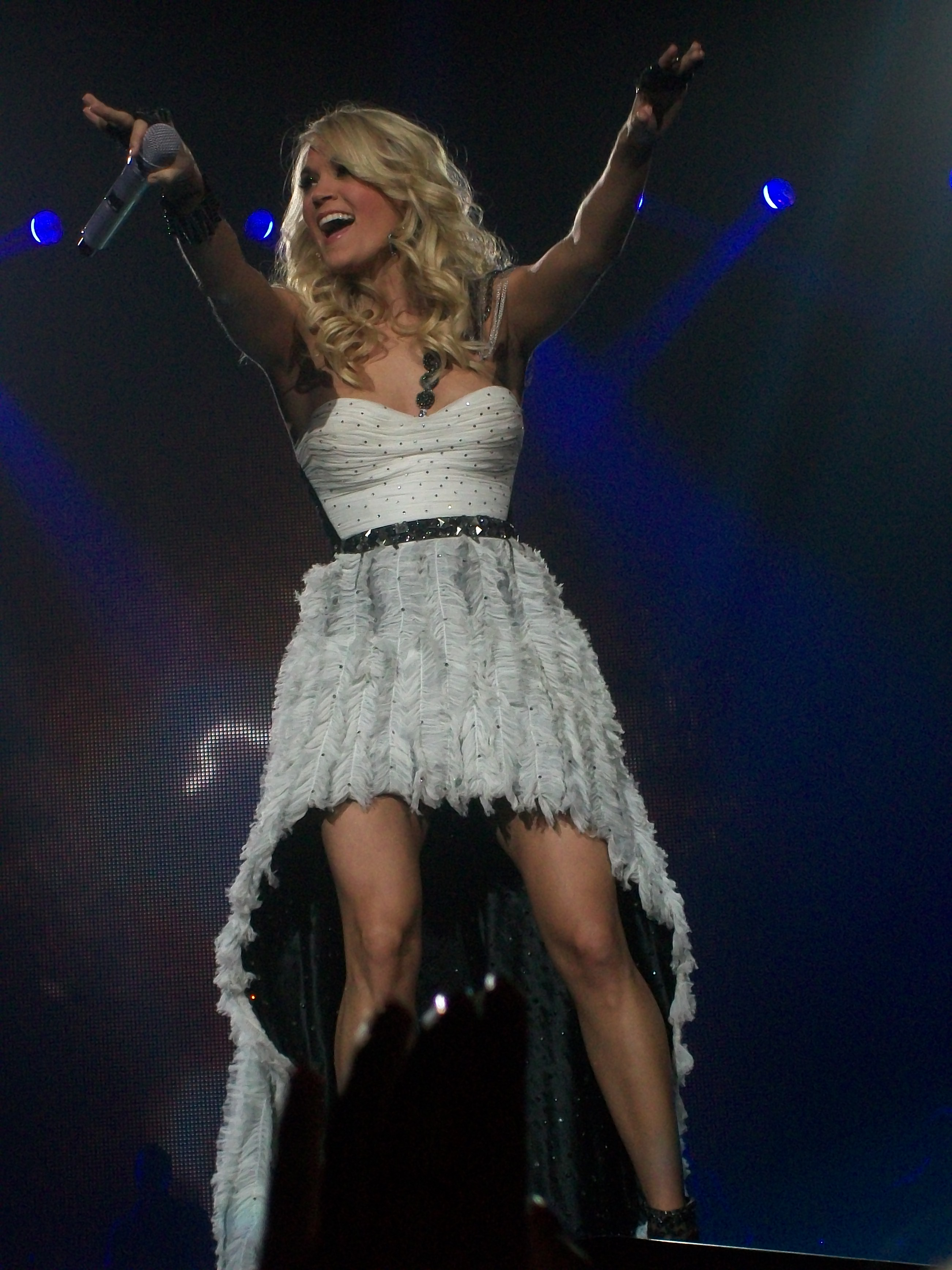 Carrie Underwood performing on her "Blow Away Tour" on December 6, 2012 at John Labatt Centre in London, Ontario.